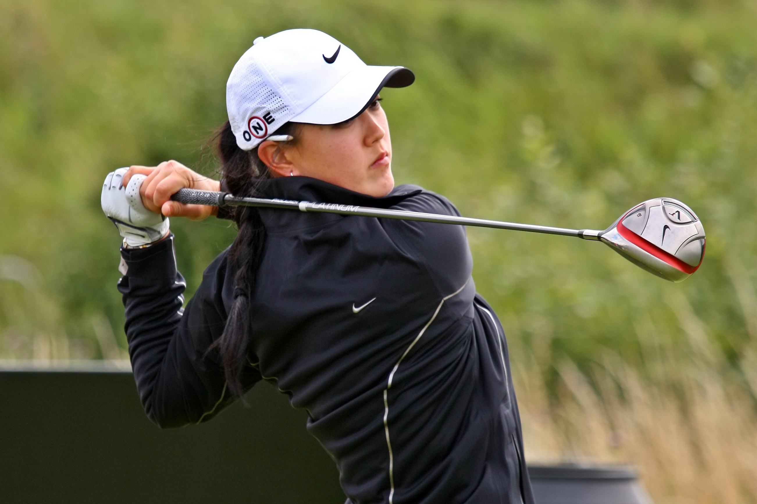 SOUTHPORT, UNITED KINGDOM – JULY 28: Michelle Wie of USA tees off on the 10th hole during final practice round before 2010 Ricoh Women's British Open held at Royal Birkdale on July 28, 2010 in Southport, England. (Photo by Wojciech Migda)